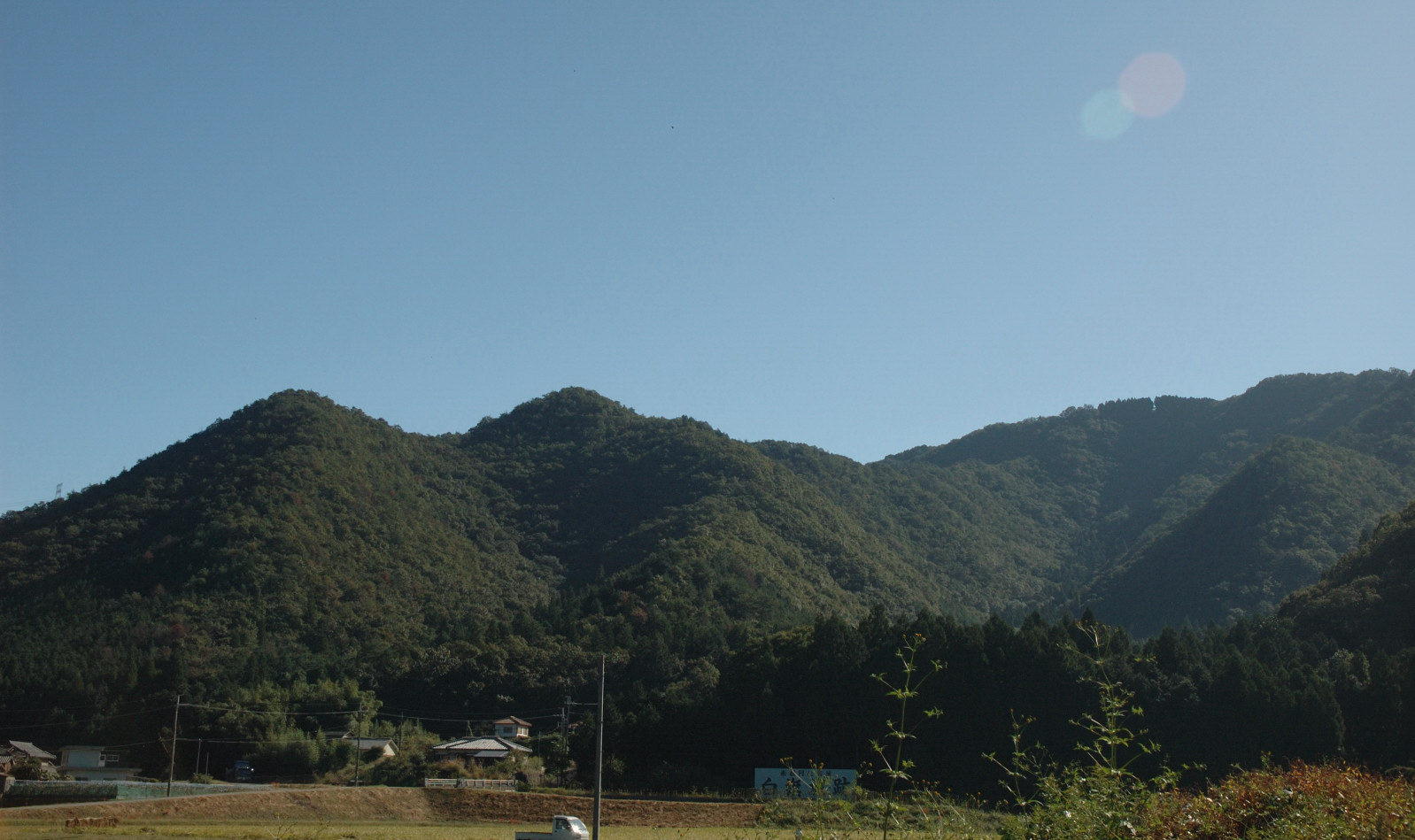 distant view of Shirohata castle